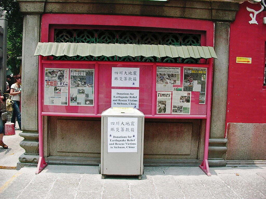 I took this photo in Macao, May, 2008